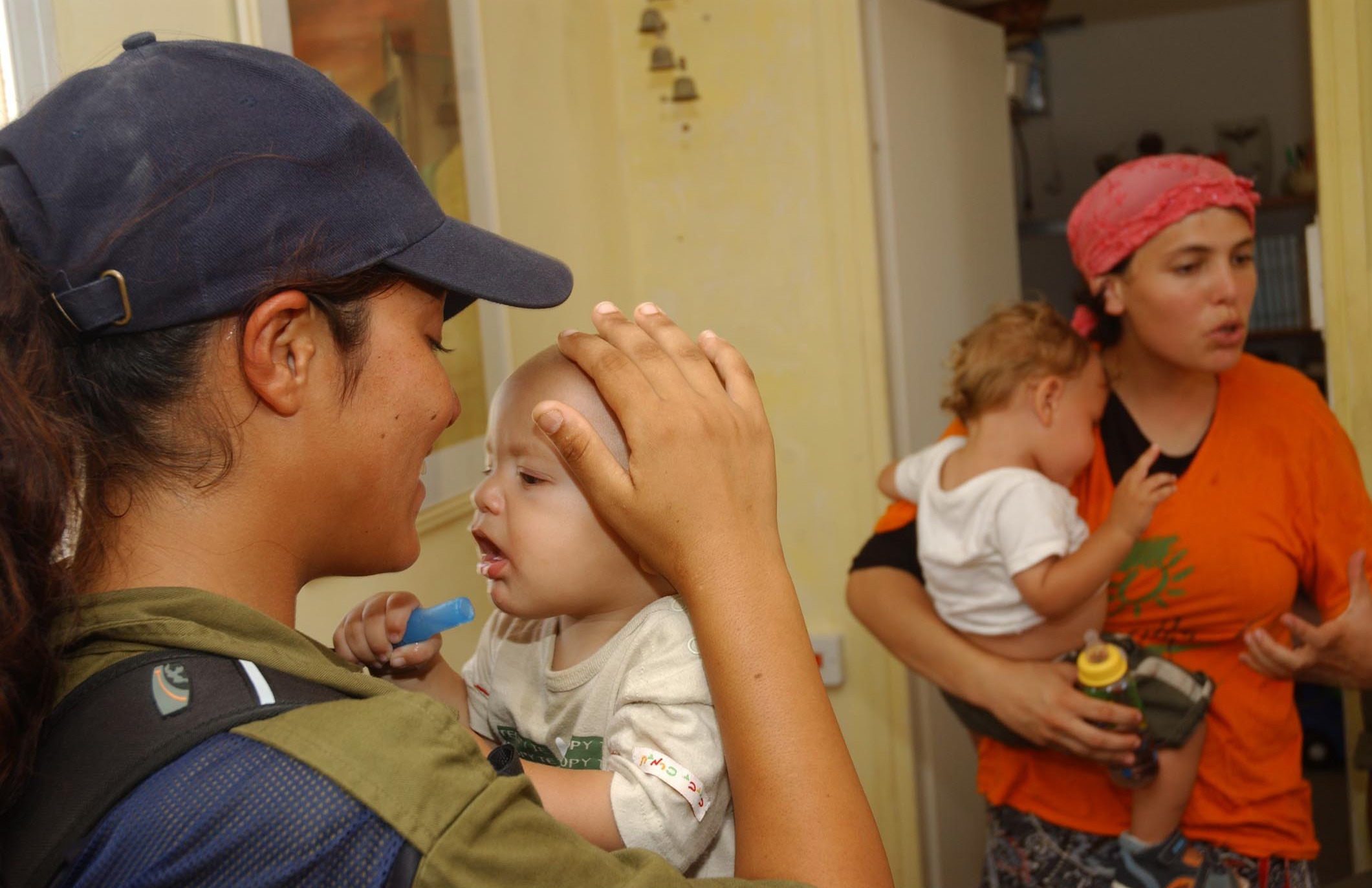 August 18, 2005. The evacuation of the Israeli community Shirat Hayam was part of the Gaza Disengagement, which took place during the summer of 2005.